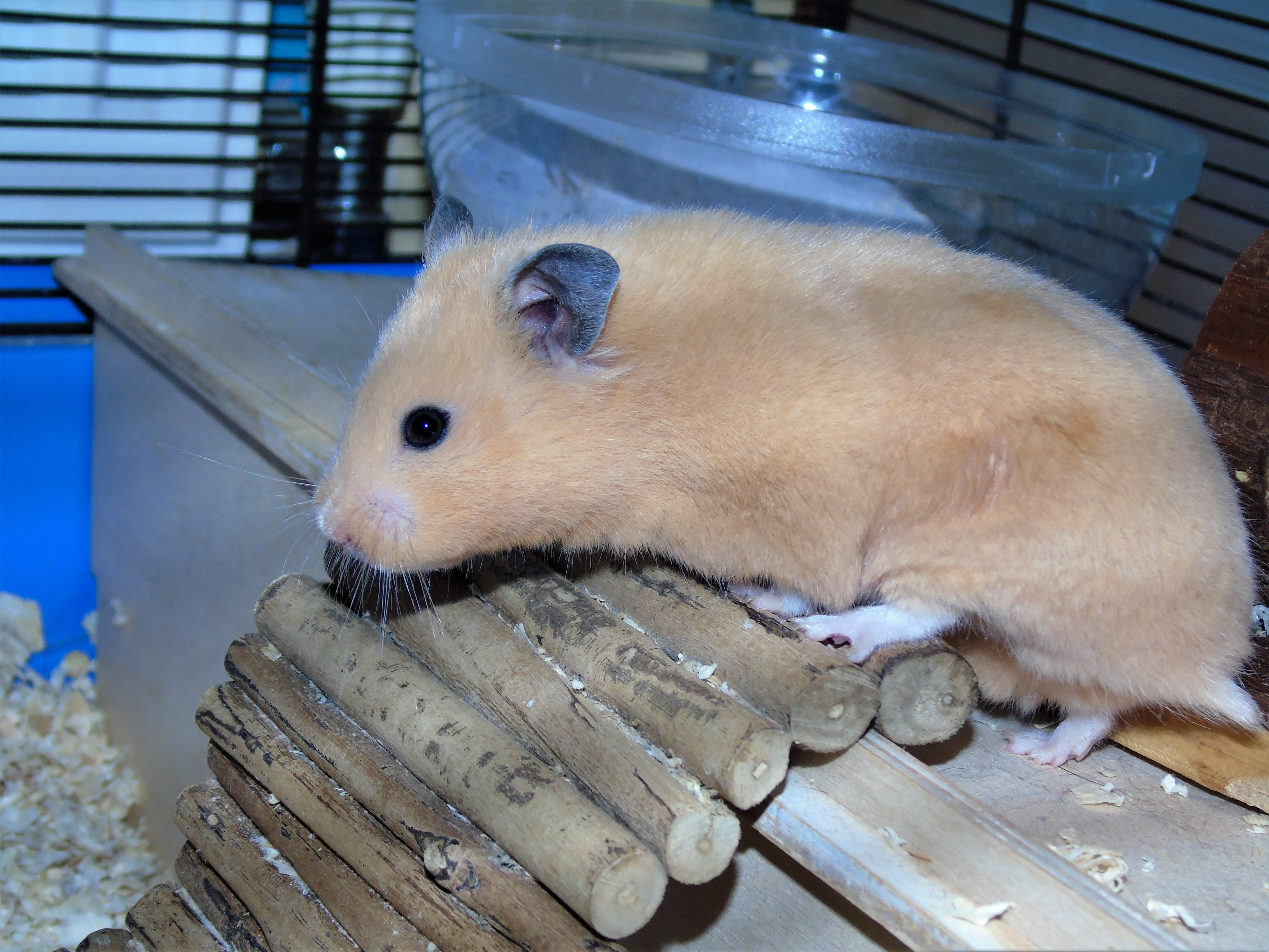 A young female Pedigree Syrian Hamster in the Black Eyed Cream mutation.